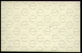 Small sheet of Irish 'e' watermark paper showing the watermark used for Irish stamps between about en:1940 and en:1974 The change from the 'se' watermark to the 'e' watermark paper came about due to the change in the official change in the country's name from Saorstat Éireann (Irish Free State) to Éire (Ireland). Scan made by me from publicly available paper and put into the public domain especially for Irish stamp collectors